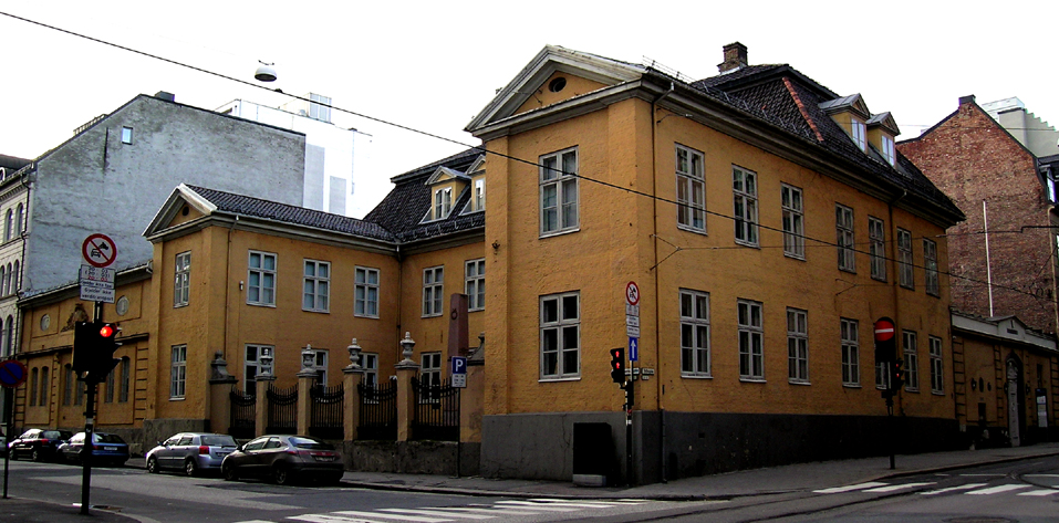 Tollbugata 10, Oslo. Erected ca. 1765 as a palais for governor (stiftamtmann) Caspar Herman Storm. Norway's Military Academy (Krigsskolen) 1903-1908. Today representation building of The Norwegian Army.